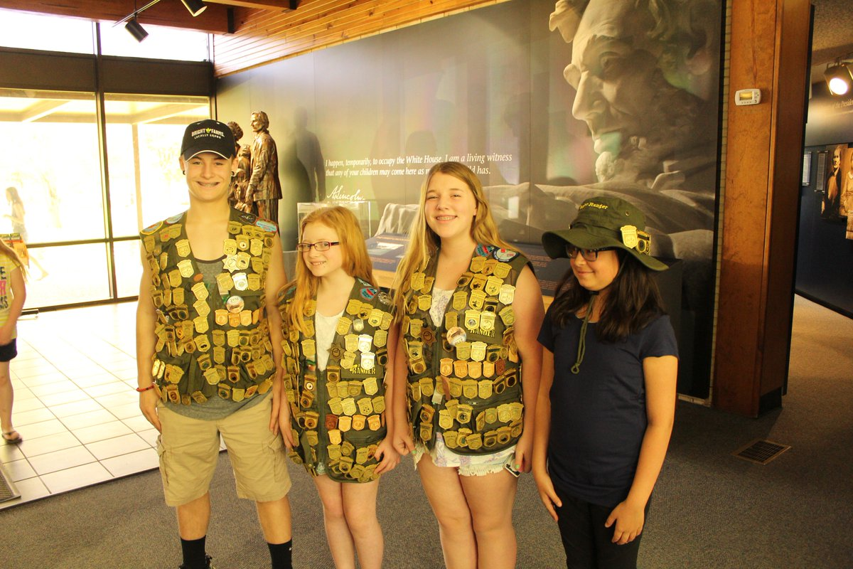 Junior Rangers at Abraham Lincoln Birthplace National Historic Site